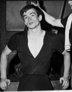 Press photo of Rudolf Nurejev at his defection from Soviet Union 1961.